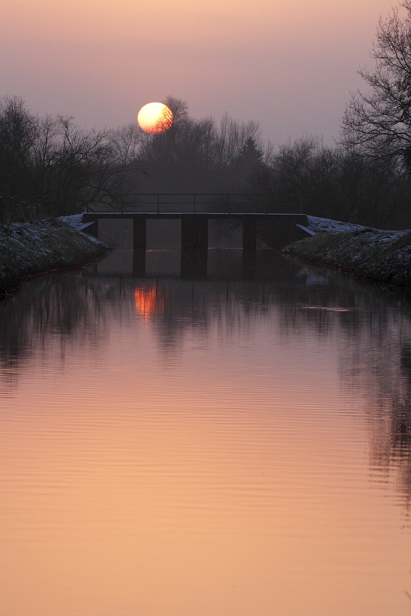 Sundown at Alte Aller before flowing into river Weser near Baden (Achim, Germany).